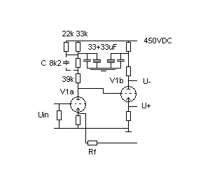 Tube power pre-amp